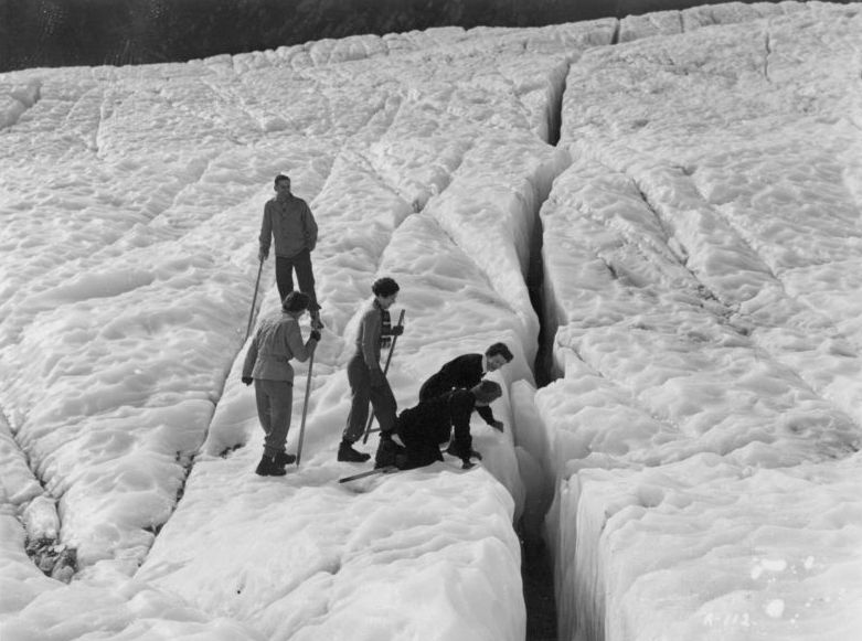 Description: Fox Glacier, Westland - Party inspecting a crevasse on the Fox Glacier Photographer: Unknown Date: Unknown Archives New Zealand Reference: AAQT 6539 A112 This photo is from Archives New Zealand's National Publicity Studio's collection. The National Publicity Studio was established in 1945, but its beginnings can be traced back to the establishment in 1924 of a Publicity Office - part of the Department of Internal Affairs. The emphasis of this Publicity Office was on films, photographs and booklets. The purpose of the National Publicity Studio was to provide advice to government departments and state agencies on the provision of photographic, art, and display services and in particular to assist in the production of publicity material aimed at conveying a favourable image of New Zealand.